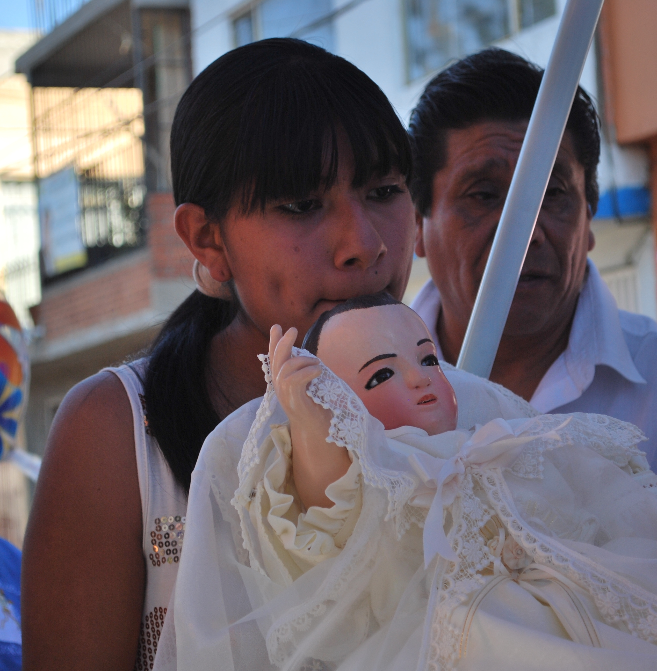 The Niñopa in procession in Xochimilco